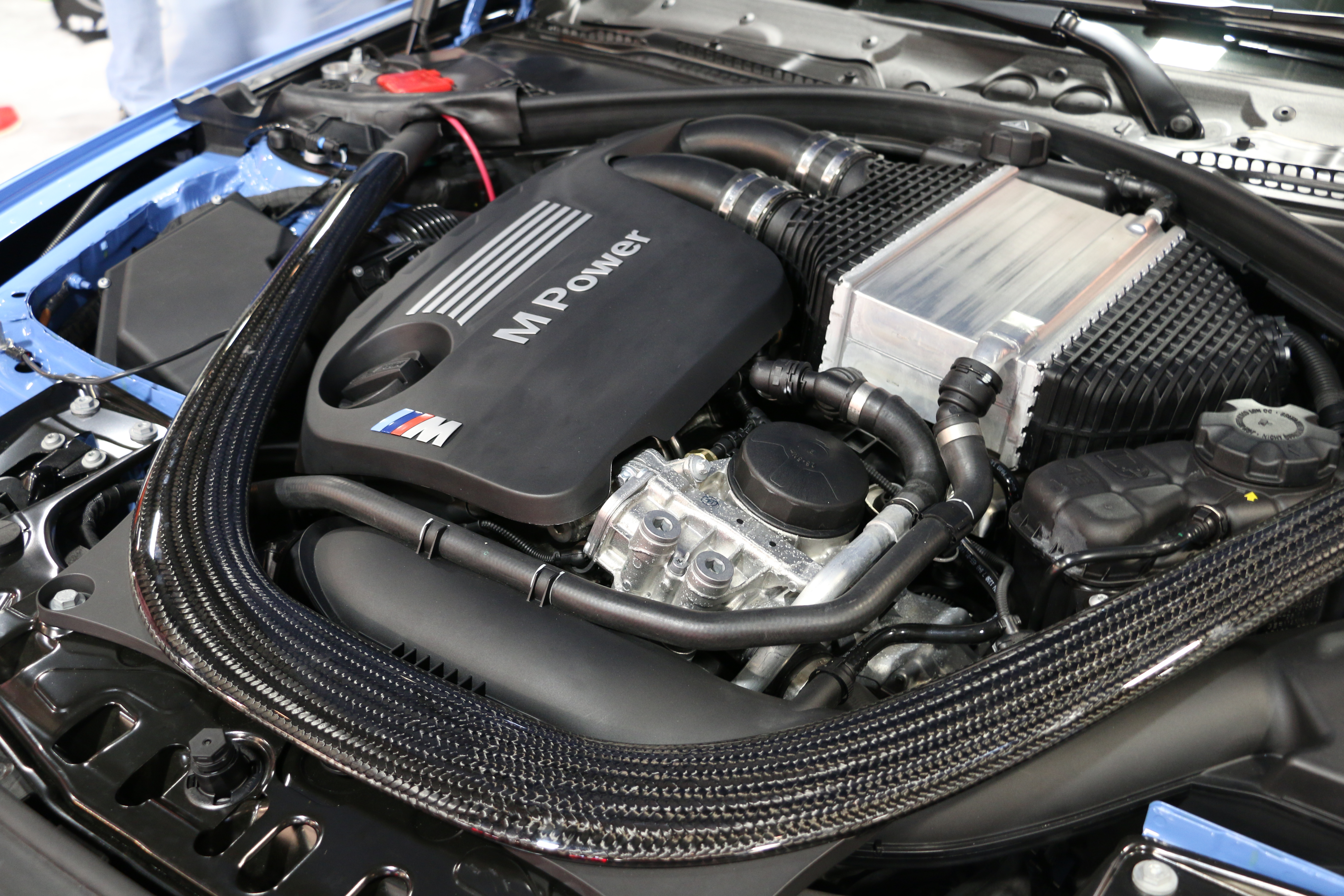 2014 Washington Auto Show